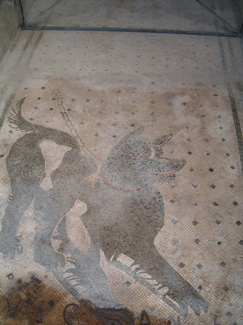 The tragical poet house, Pompei